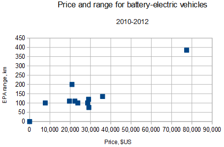 Electric vehicles range and price, until 2012. Source: UBS Evidence Lab Electric Car Teardown , numbers at